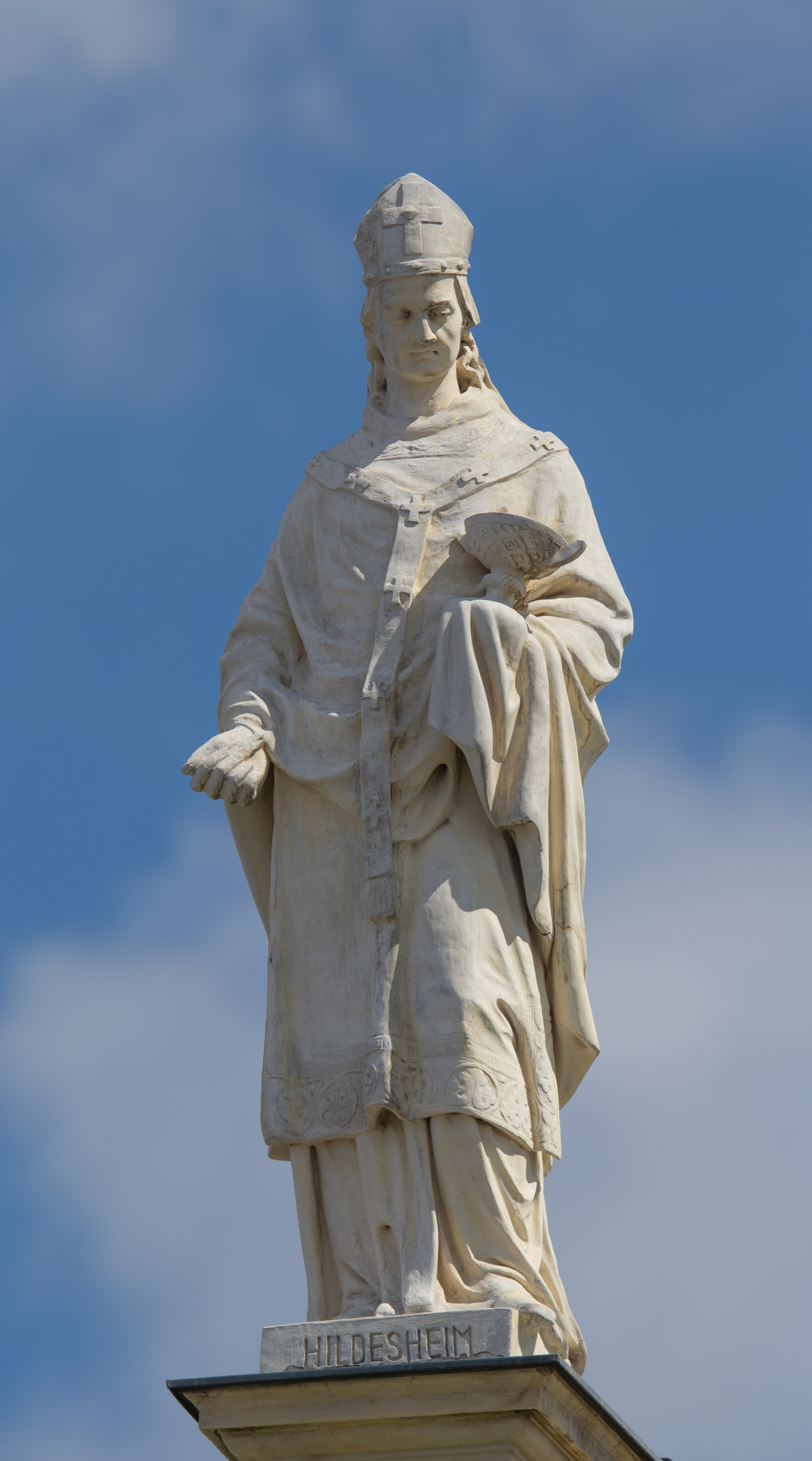 Kunsthistorisches Museum in Vienna Figure on the roof, Bernward von Hildesheim The making of this work was supported by Wikimedia Austria. For other files made with the support of Wikimedia Austria, please see the category Supported by Wikimedia Österreich.